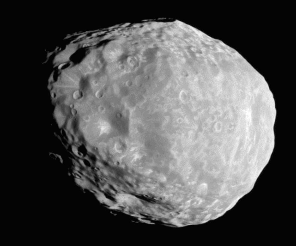 Saturn's moon Janus shows the scars of impacts in this Cassini image of craters light and dark. This view looks toward the Saturn-facing side of Janus (179 kilometers, 111 miles across). North on Janus is up and rotated 10 degrees to the right. The image was taken in visible light with the Cassini spacecraft narrow-angle camera on April 7, 2010. The view was acquired at a distance of approximately 75,000 kilometers (46,000 miles) from Janus and at a Sun-Janus-spacecraft, or phase, angle of 39 degrees. Image scale is 448 meters (1,469 feet) per pixel. The original NASA image has been modified by cropping, doubling the linear pixel density, and sharpening.